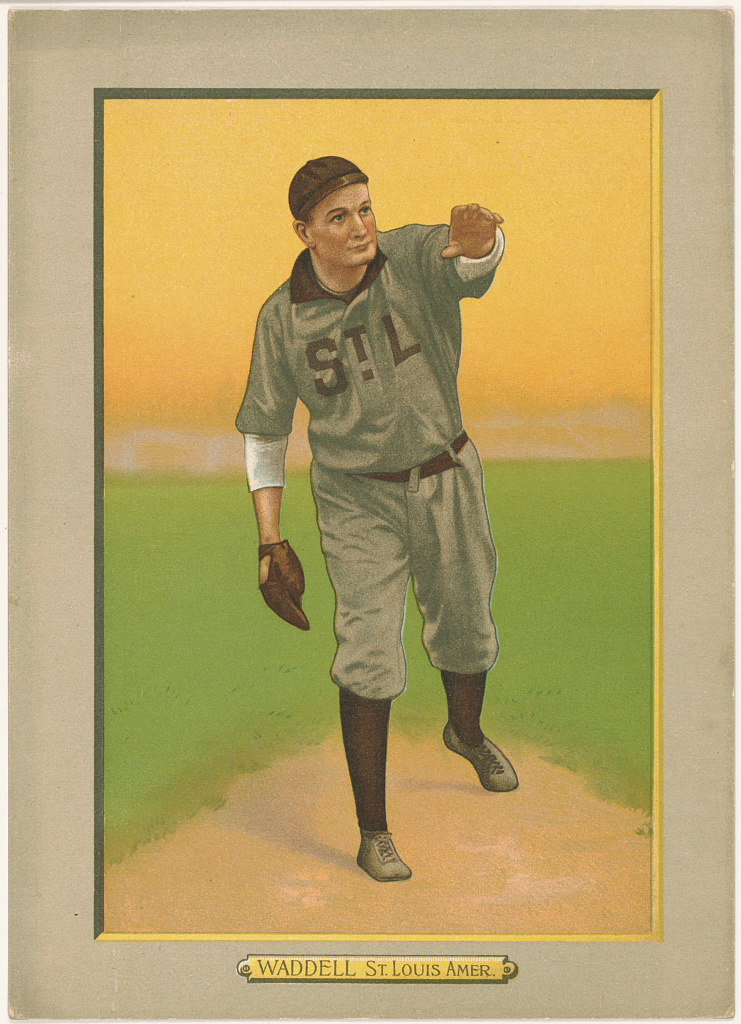 Title: Rube Waddell, St. Louis Browns, baseball card portrait Abstract/medium: 1 print : chromolithograph with hand-color.